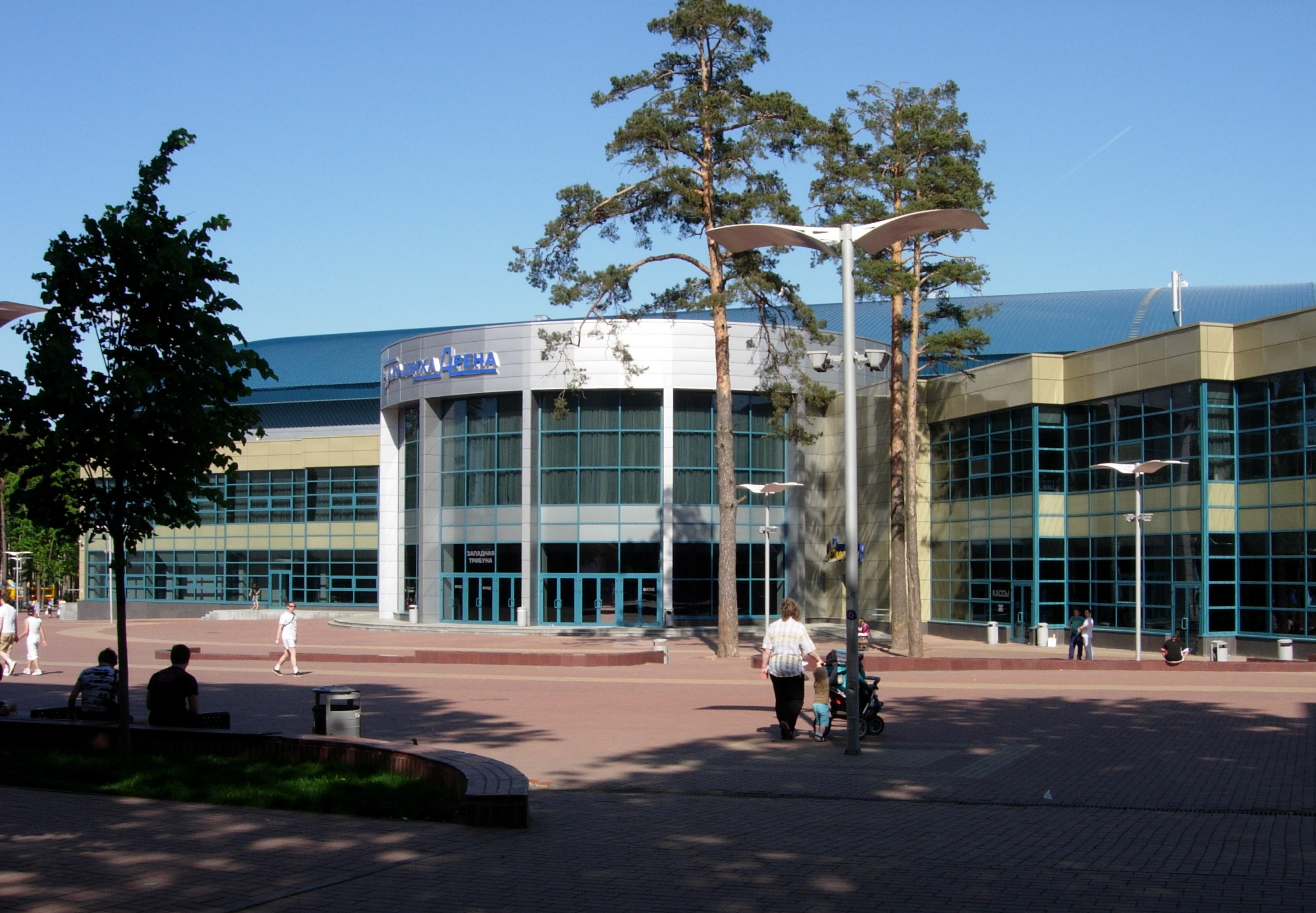 The Balashikha Arena is a 7,000-seat multi-purpose arena in Balashikha, Russia. Opened in 2007, it replaced Vityaz Ice Palace as the home of Russian Super League ice hockey team, HC MVD Moscow Oblast.